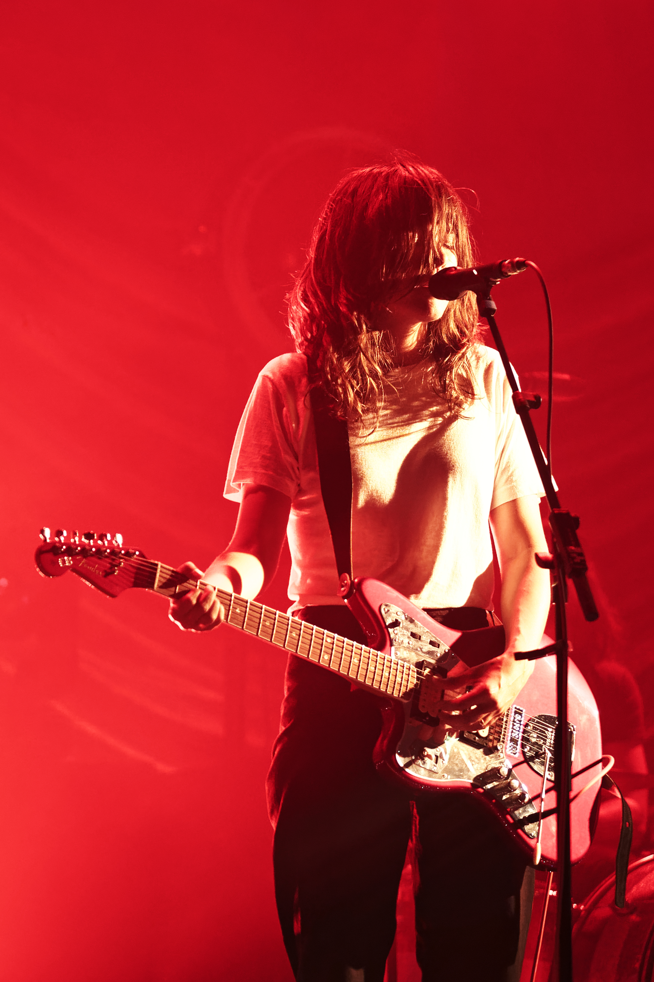 Courtney Barnett during a concert in TivoliVredenburg, Utrecht, The Netherlands on May 31st, 2018